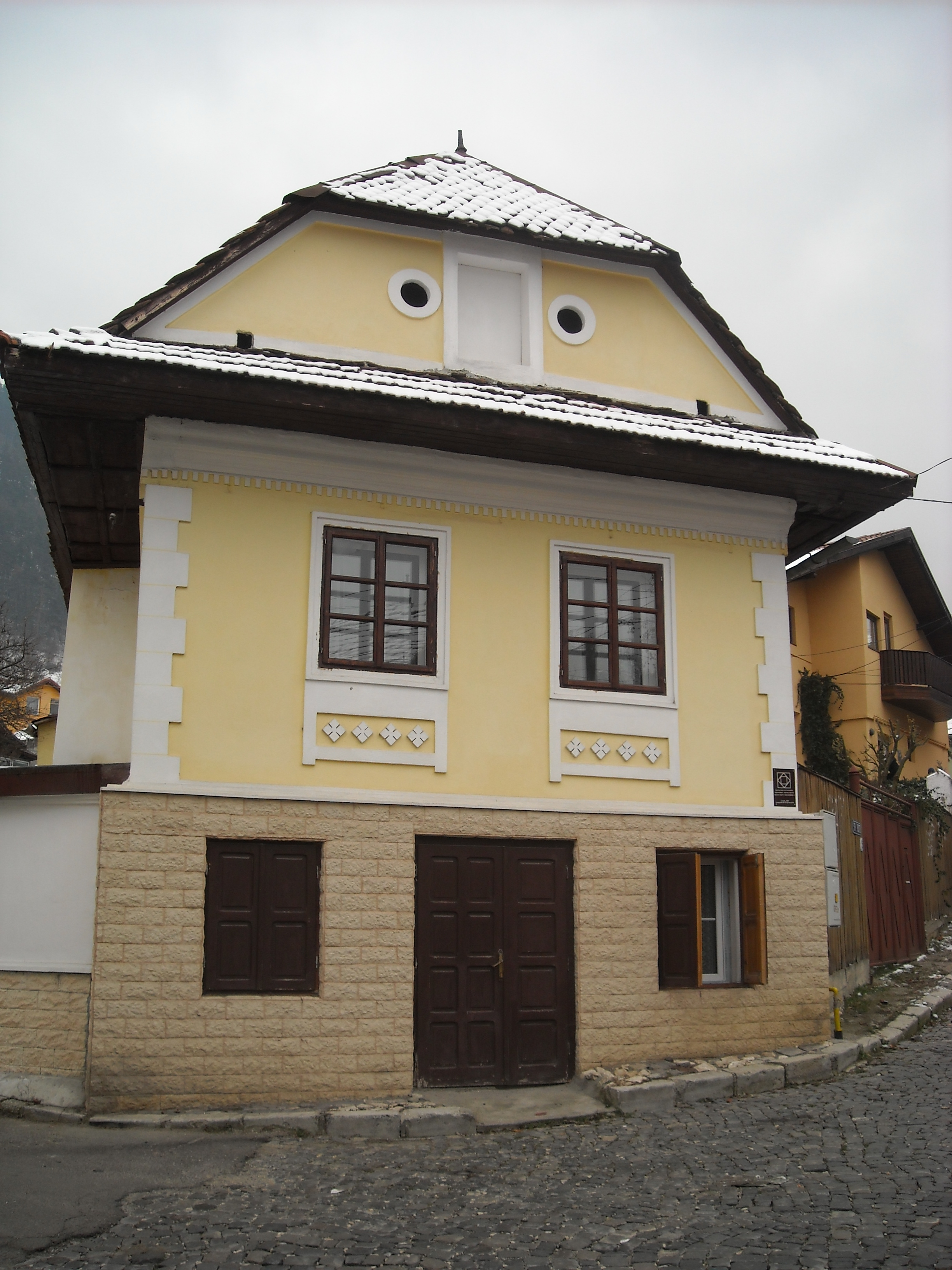 a house built in 1887 in the Pajiște neighbourhood of Șcheii Brașovului